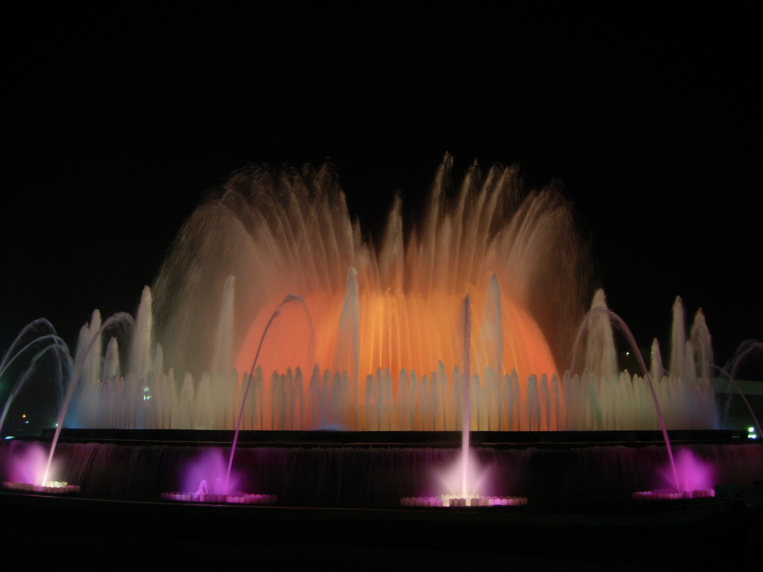 Font Mágica, the fountains in front of Palau Nacional in Barcelona, Spain.